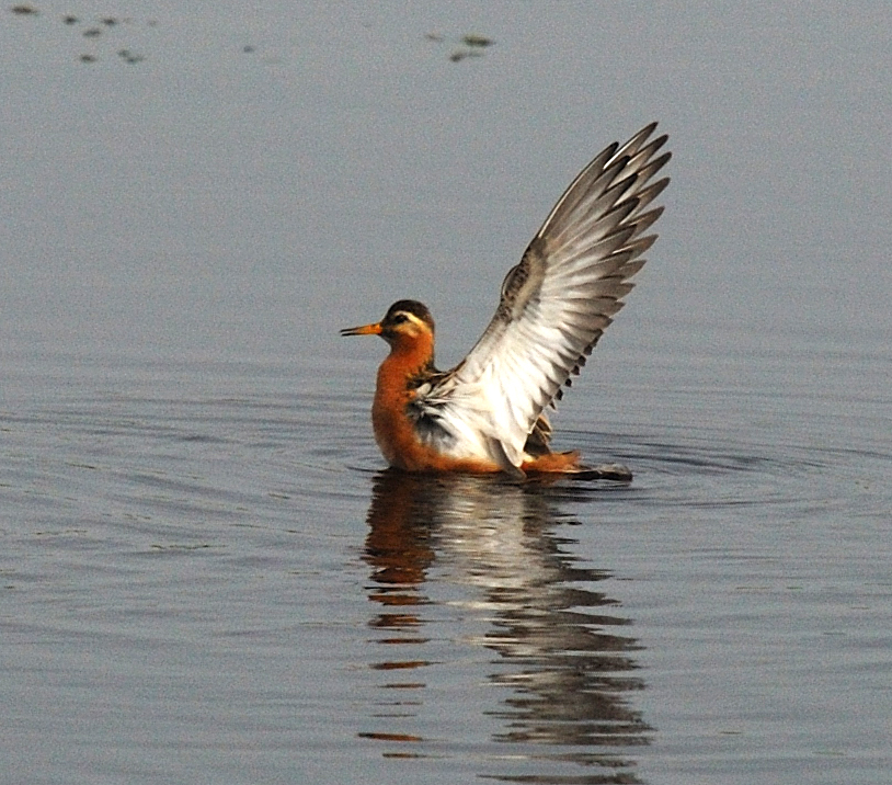 Red Phalarope Phalaropus fulicarius, adult on breeding grounds, Barrow, Alaska.